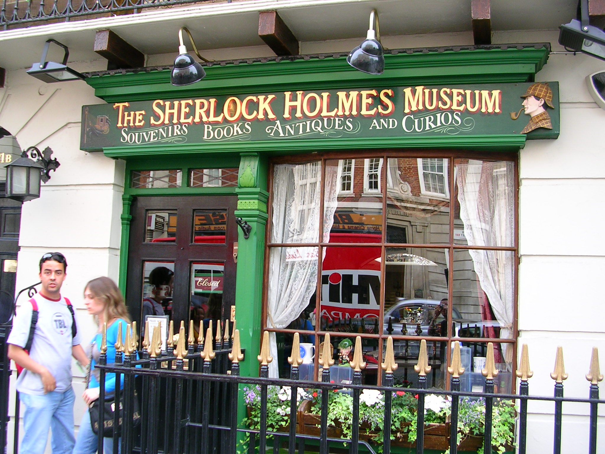 Exterior of the Sherlock Holmes Museum